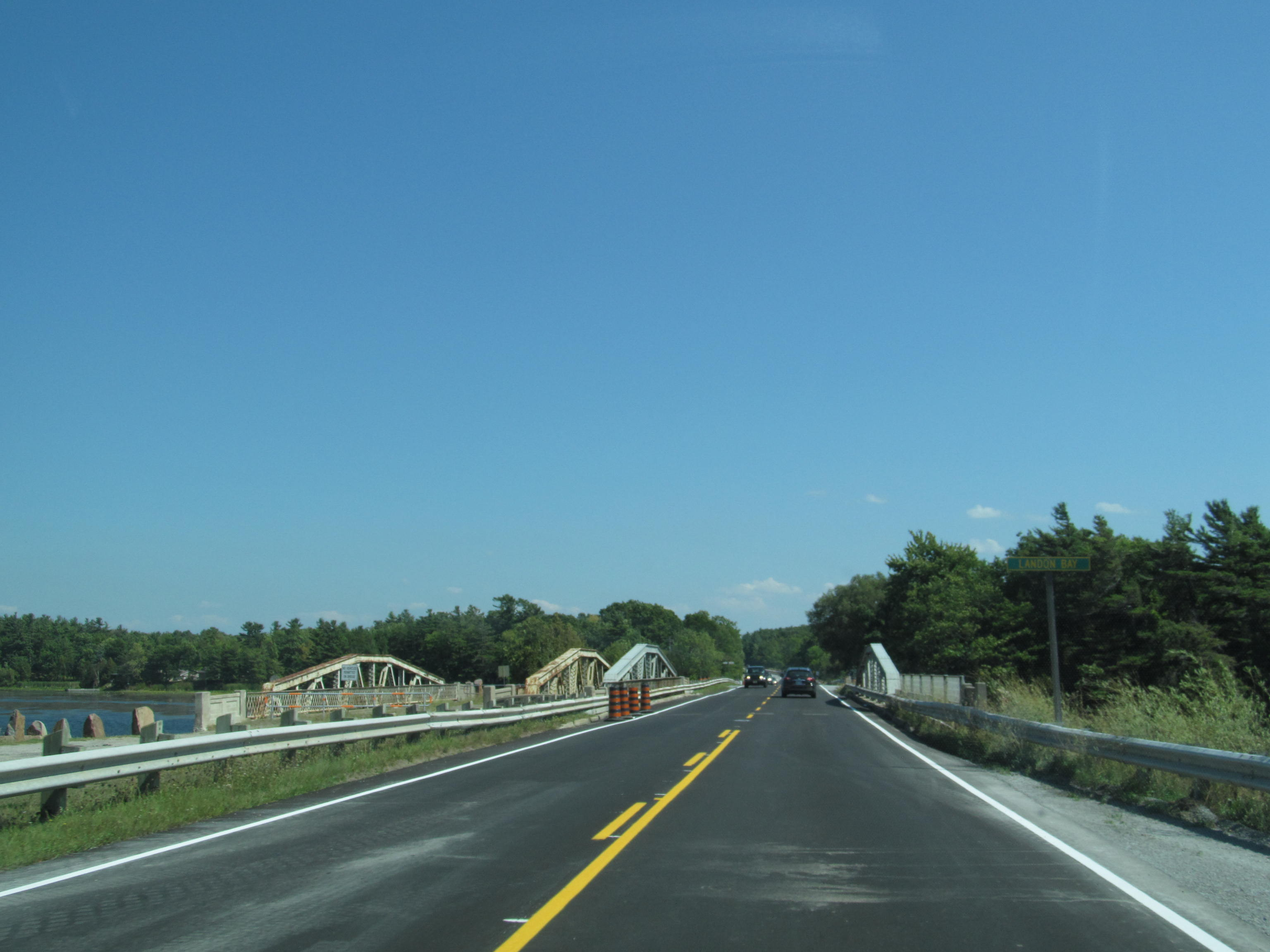 Thousand Islands Parkway in Ontario, Canada.